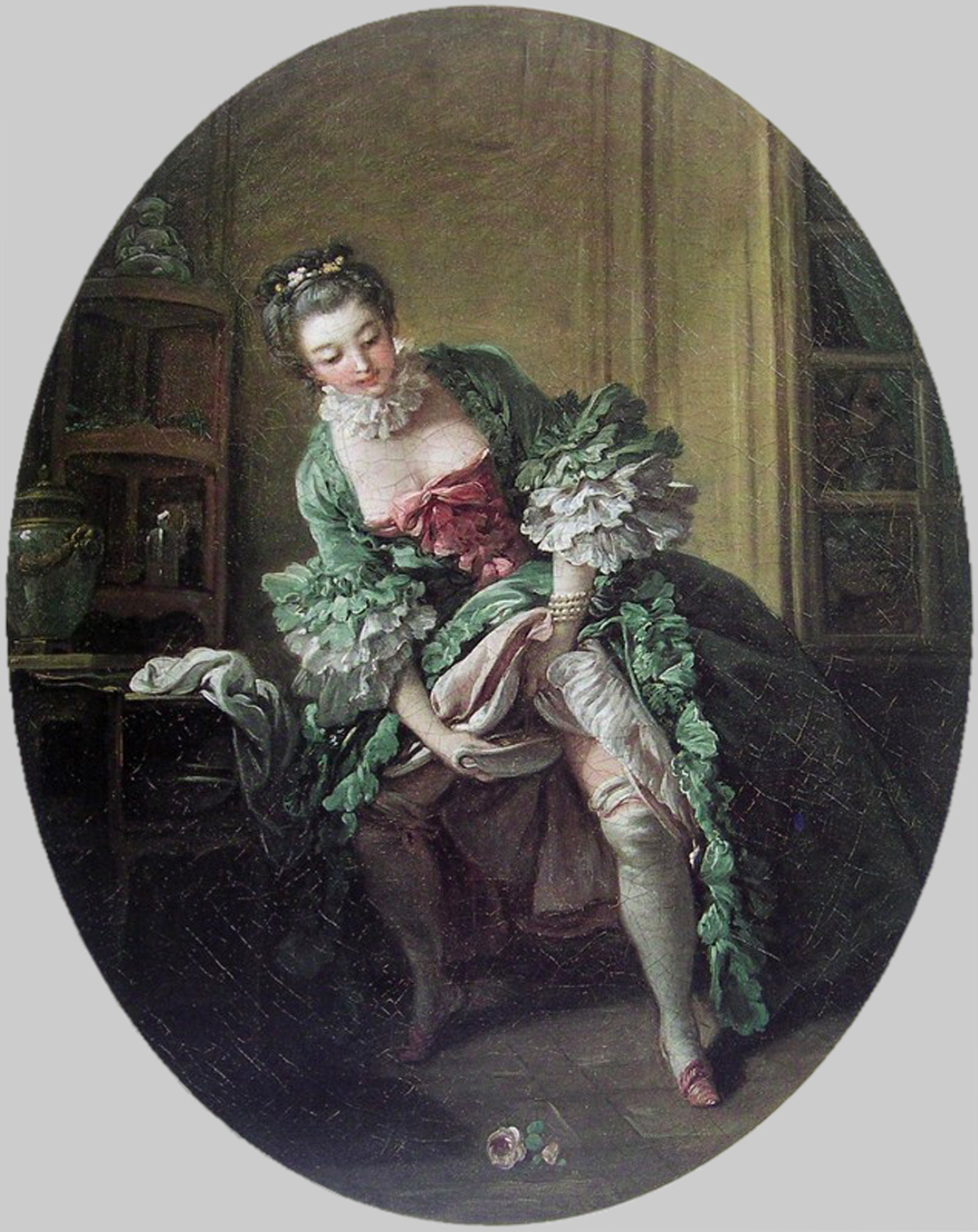 A woman who pees in a bourdaloue[1]